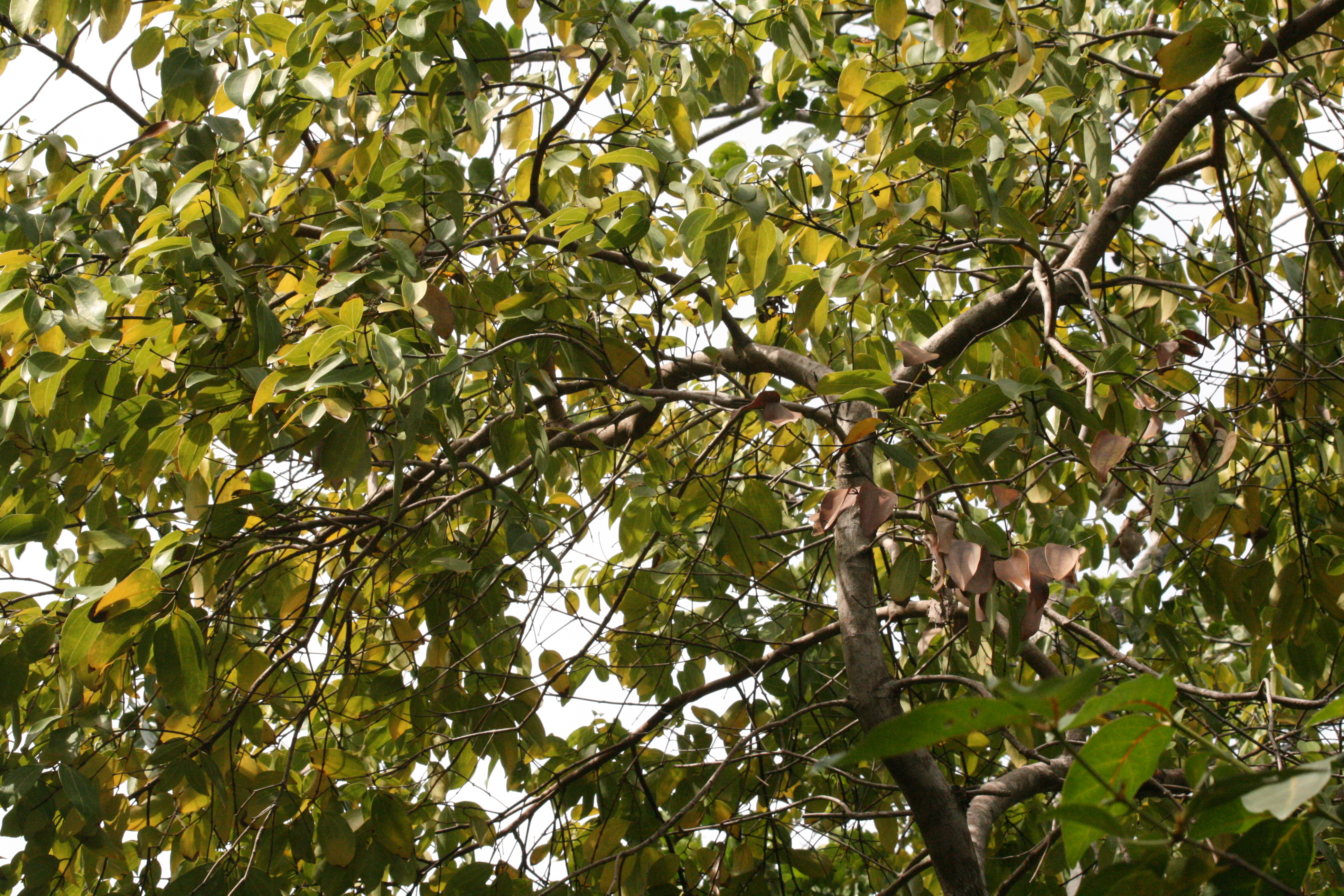 Cinnamomum verum in Curieuse Island, Seychelles